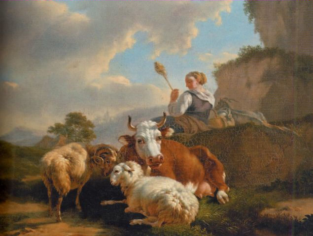 Scène pastorale by Jean Charles Carpentero